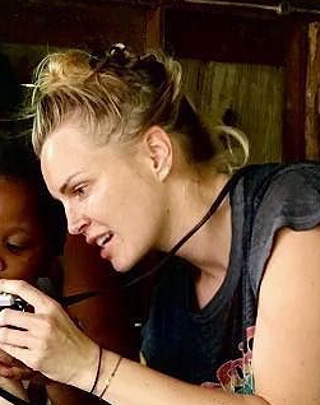 Dahl appears to be showing a young lady how to use the camera.